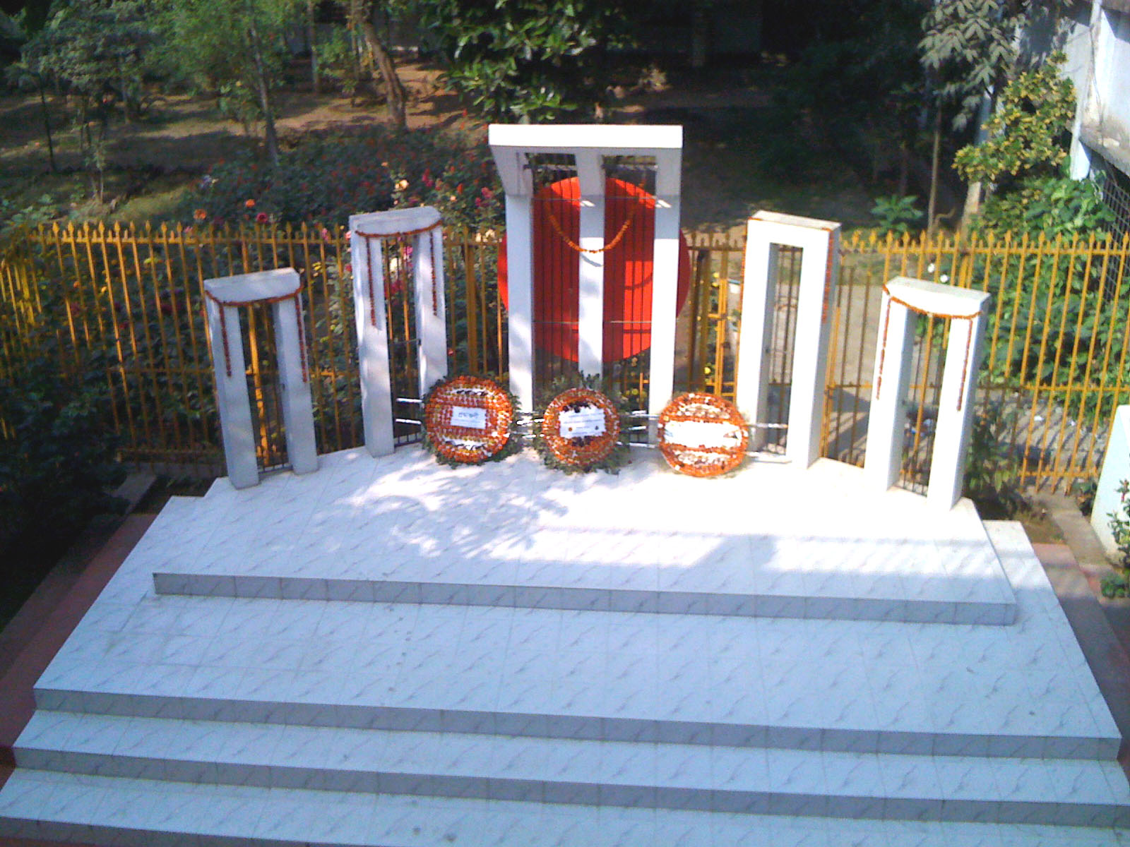 The structure was made nearly 2010.